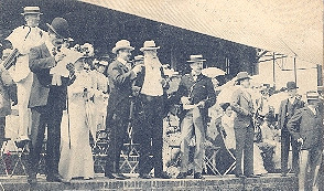 King Leopold II at the hippodrome of Oostende, Belgium (1905)